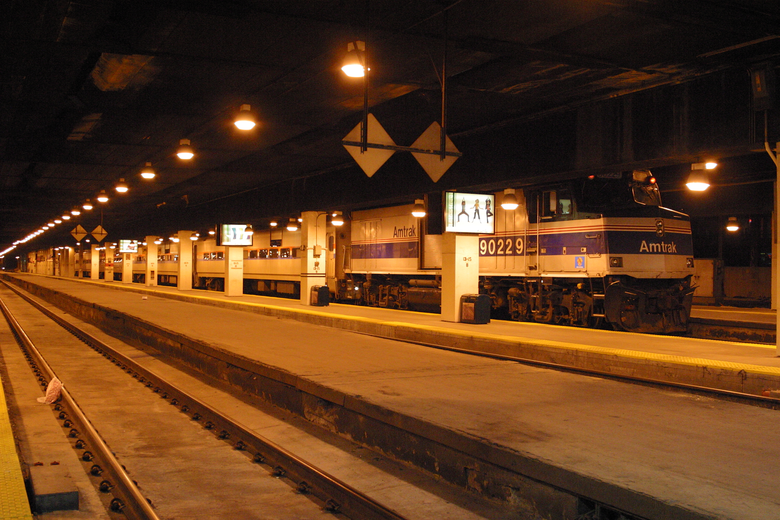 Chicago Union Station North Concourse